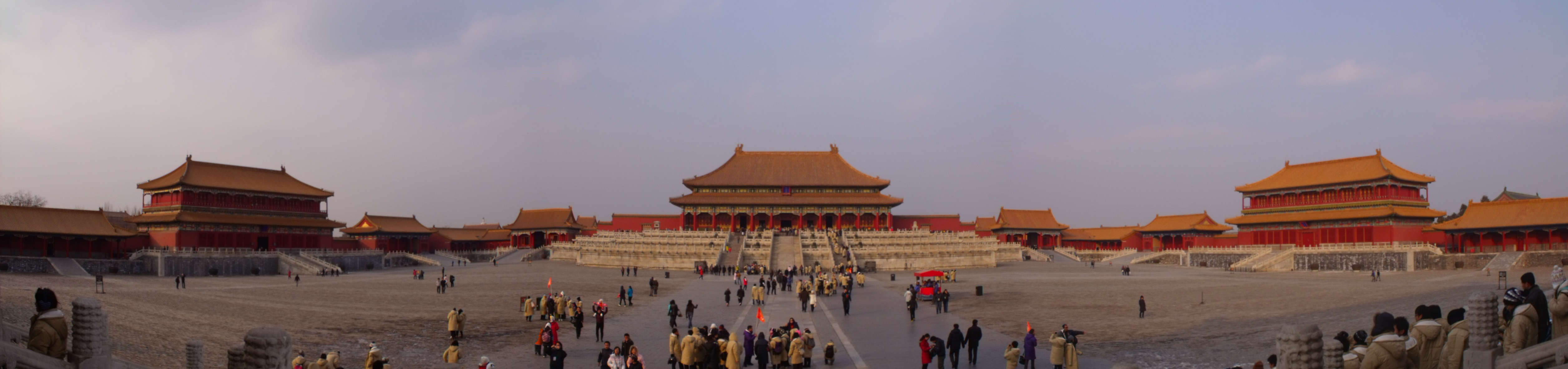 A panorama of the Hall of Supreme Harmony in Winter